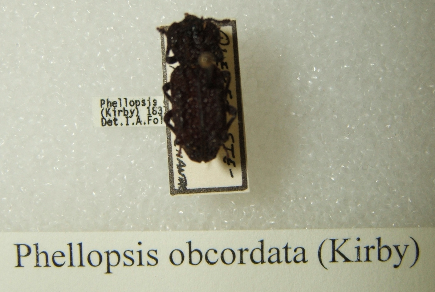 Phellopsis obcordata adult taken by Shawn Hanrahan at the Texas A&M University Insect Collection in College Station, Texas.